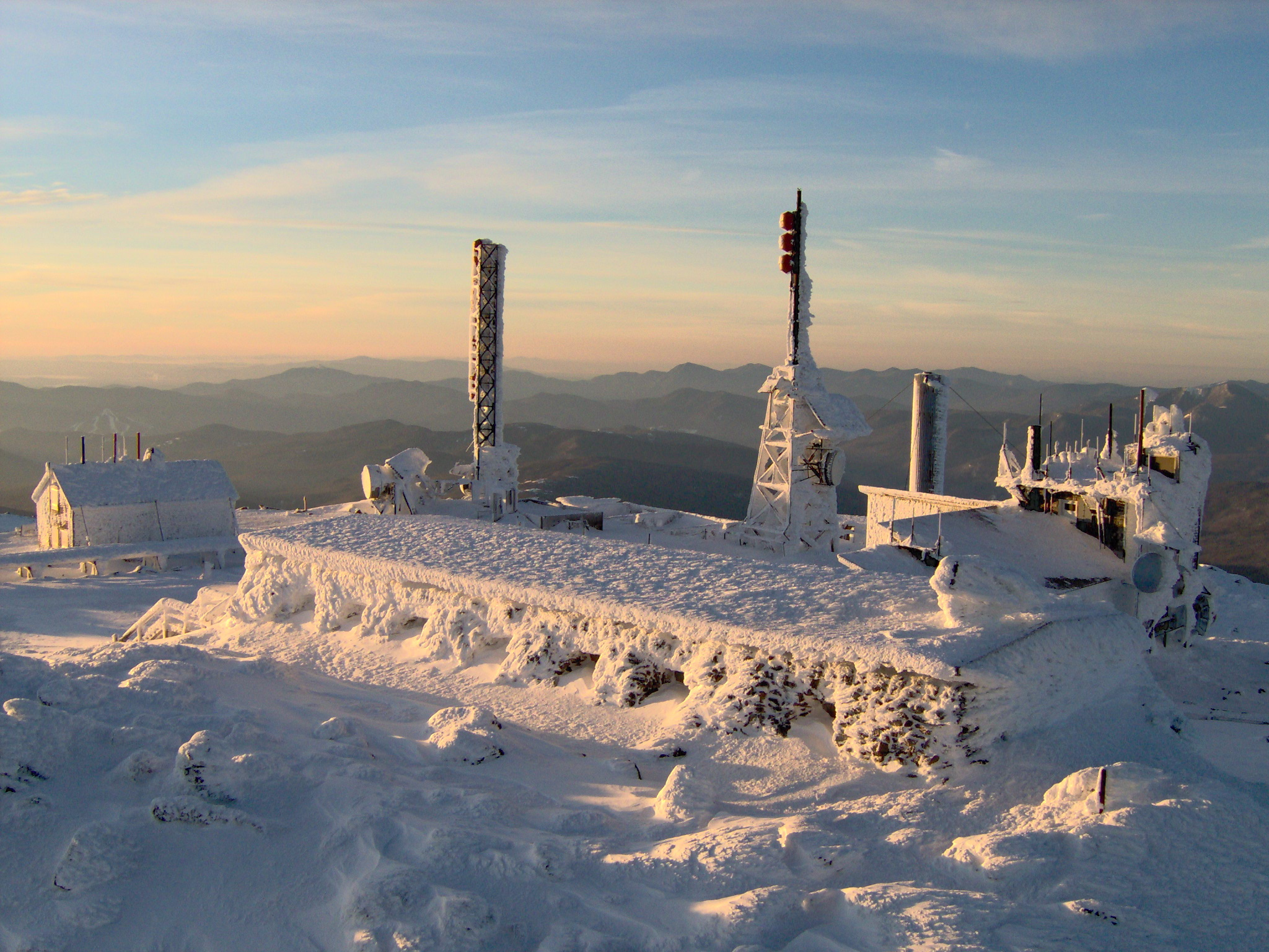 I took this picture this January and realase all rights